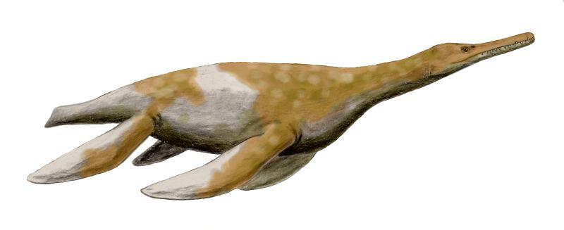 Trinacromerum bentonianum, a plesiosaur from the Late Cretaceous of Kansas, pencil drawing